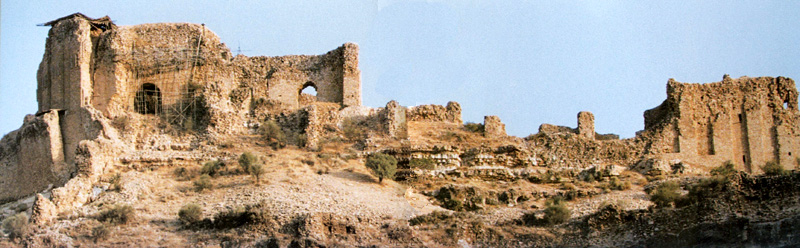 Ghal'eh Dokhtar castle or The Maiden's Castle, Sassanid era. Fars province, Iran.